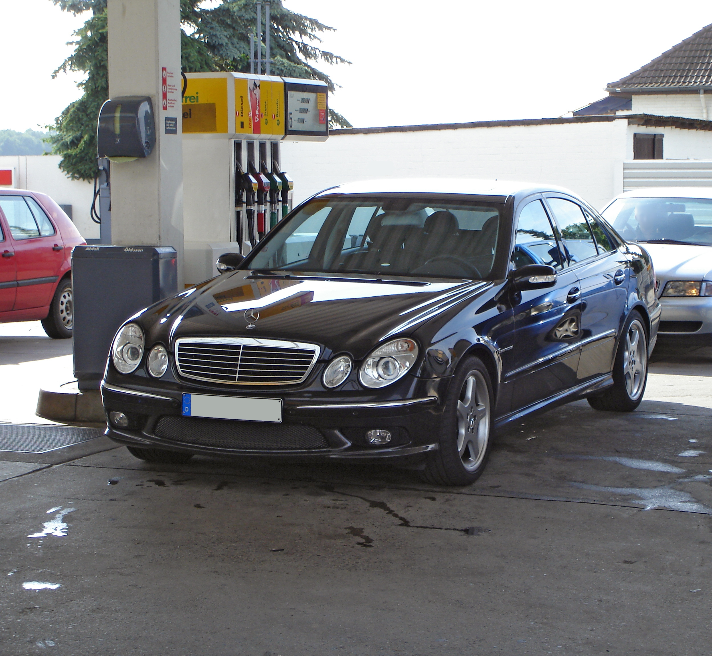 Mercedes E55 AMG V8 W211 front